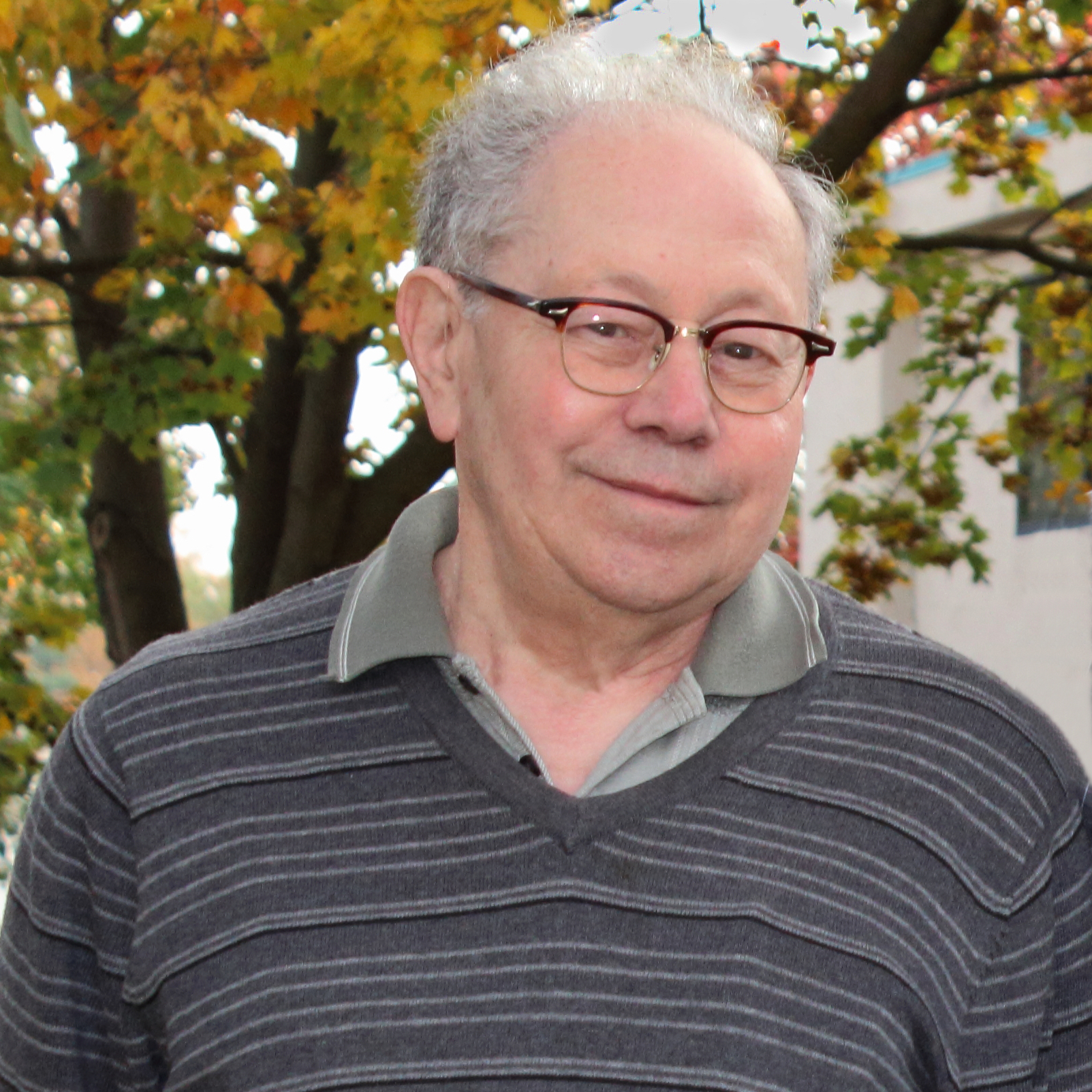 2015 photograph of mathematician Leonard Gross